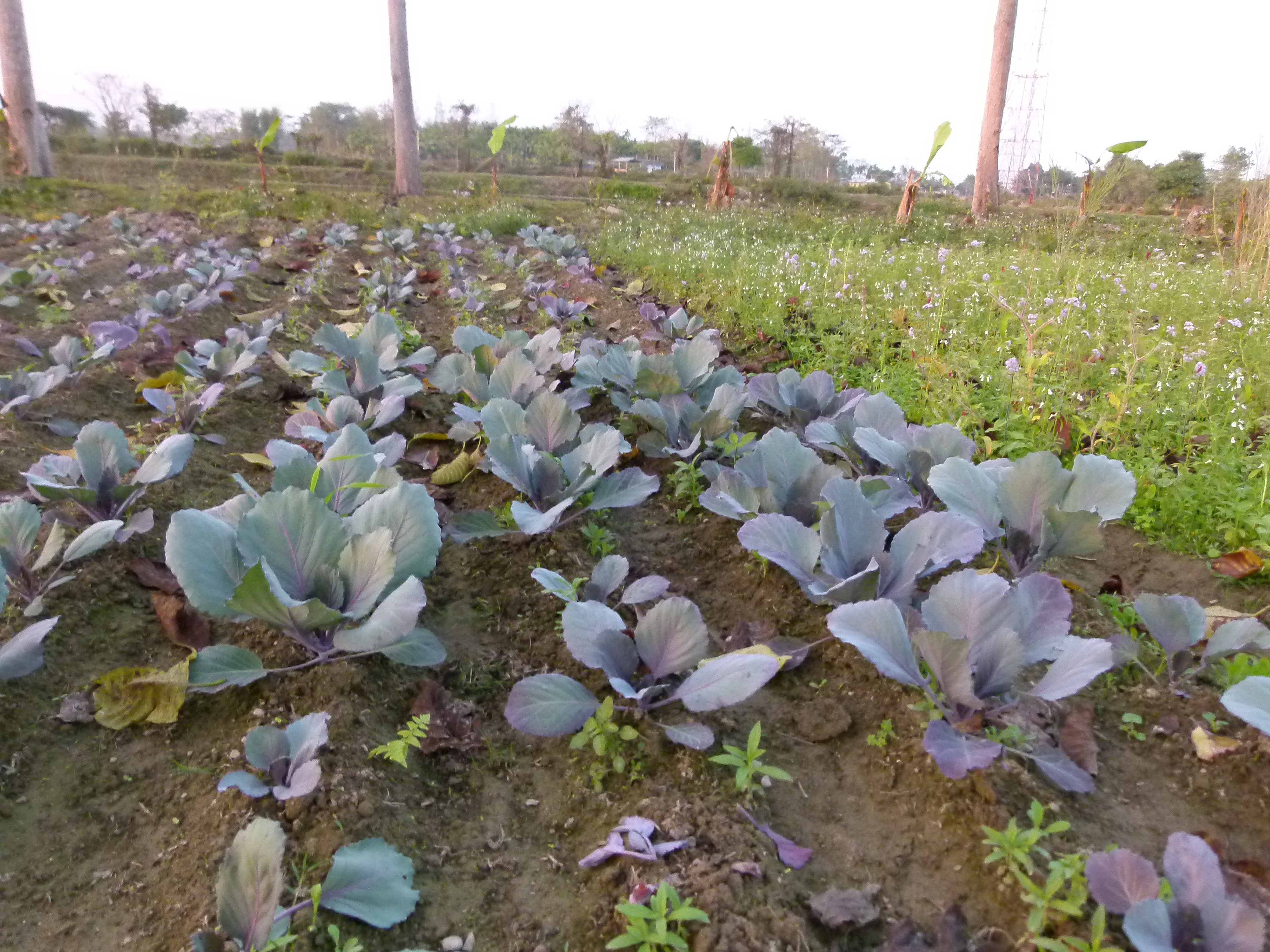 planted in an organic farm in Pabhoi, Assam, India